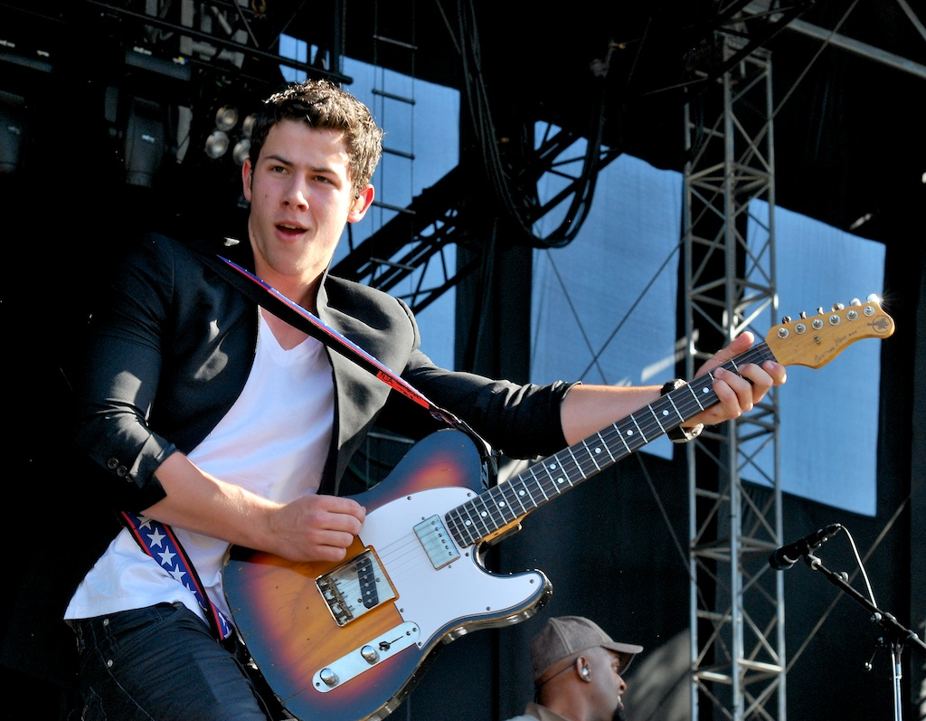 Nick Jonas at the 2011 Cisco Ottawa Bluesfest. By: Brennan Schnell